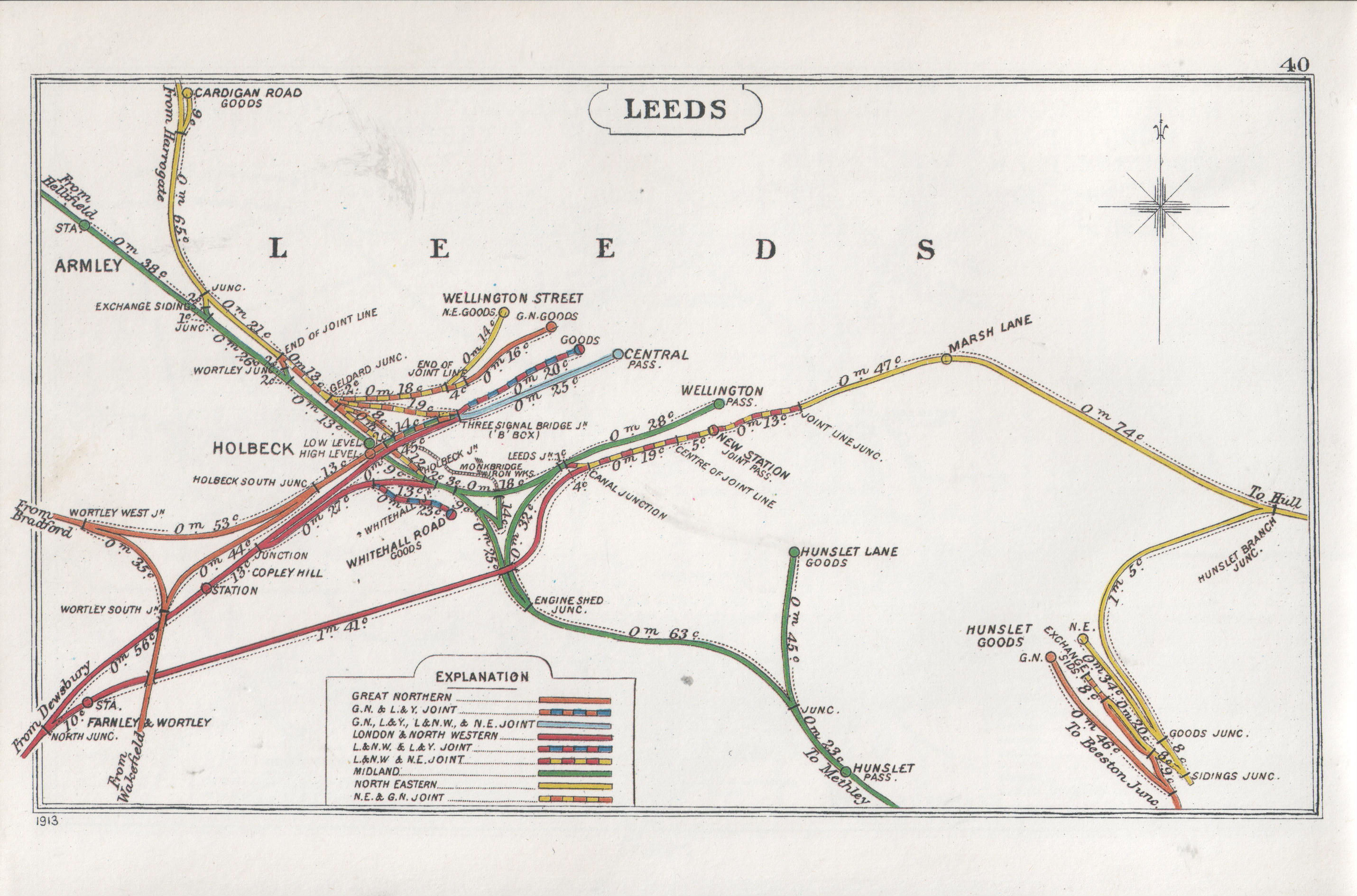 Pre Grouping railway junction around Leeds